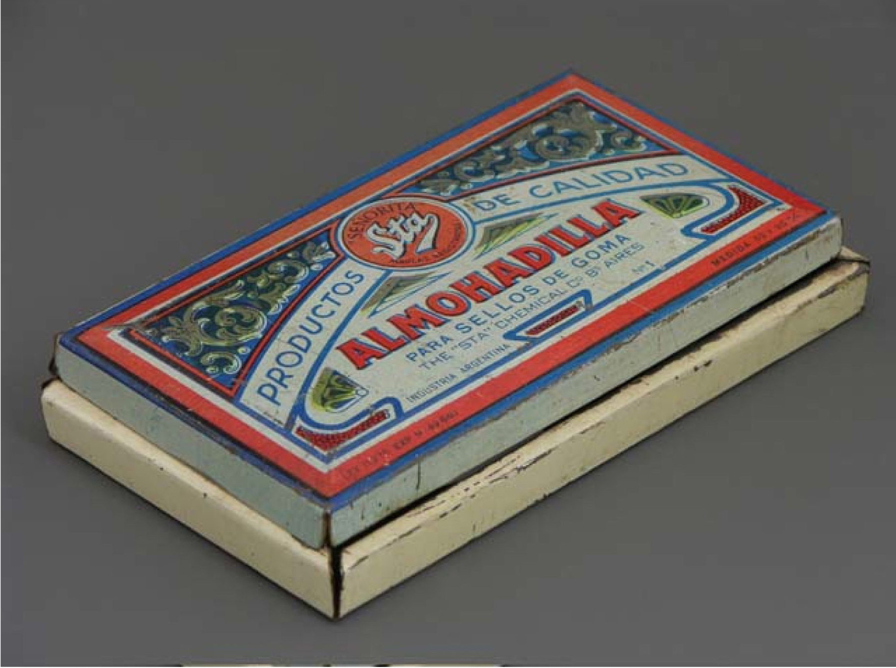 Ink stamp pad from the second half of the 20th century.